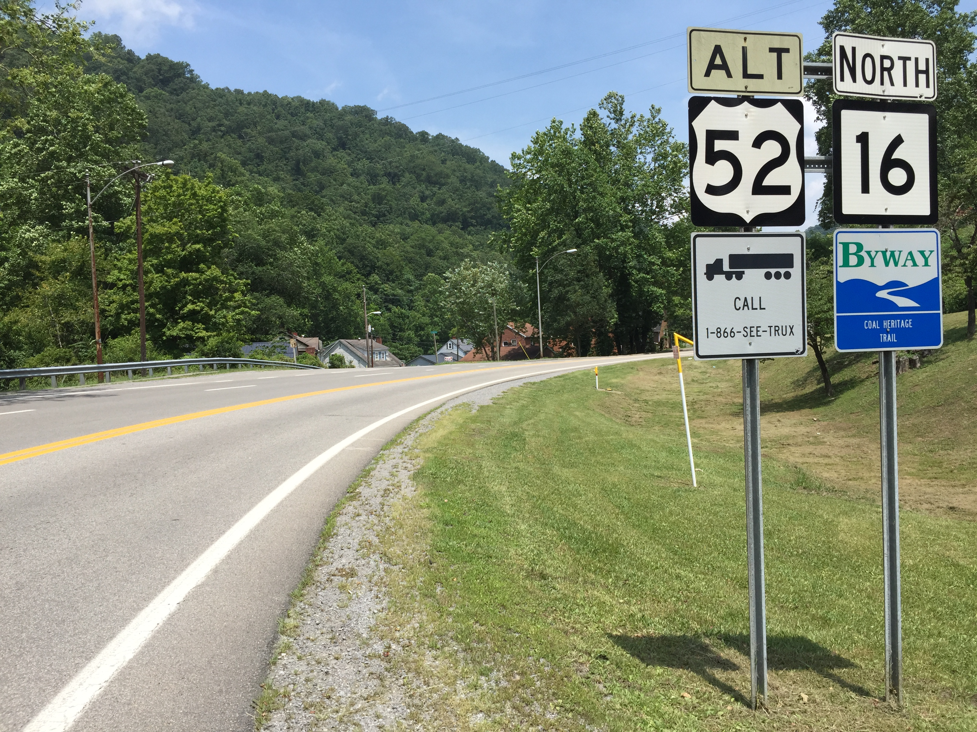 View south along U.S. Route 52 Alternate and north along West Virginia State Route 16 (Riverside Drive) at Lake Drive in Welch, McDowell County, West Virginia